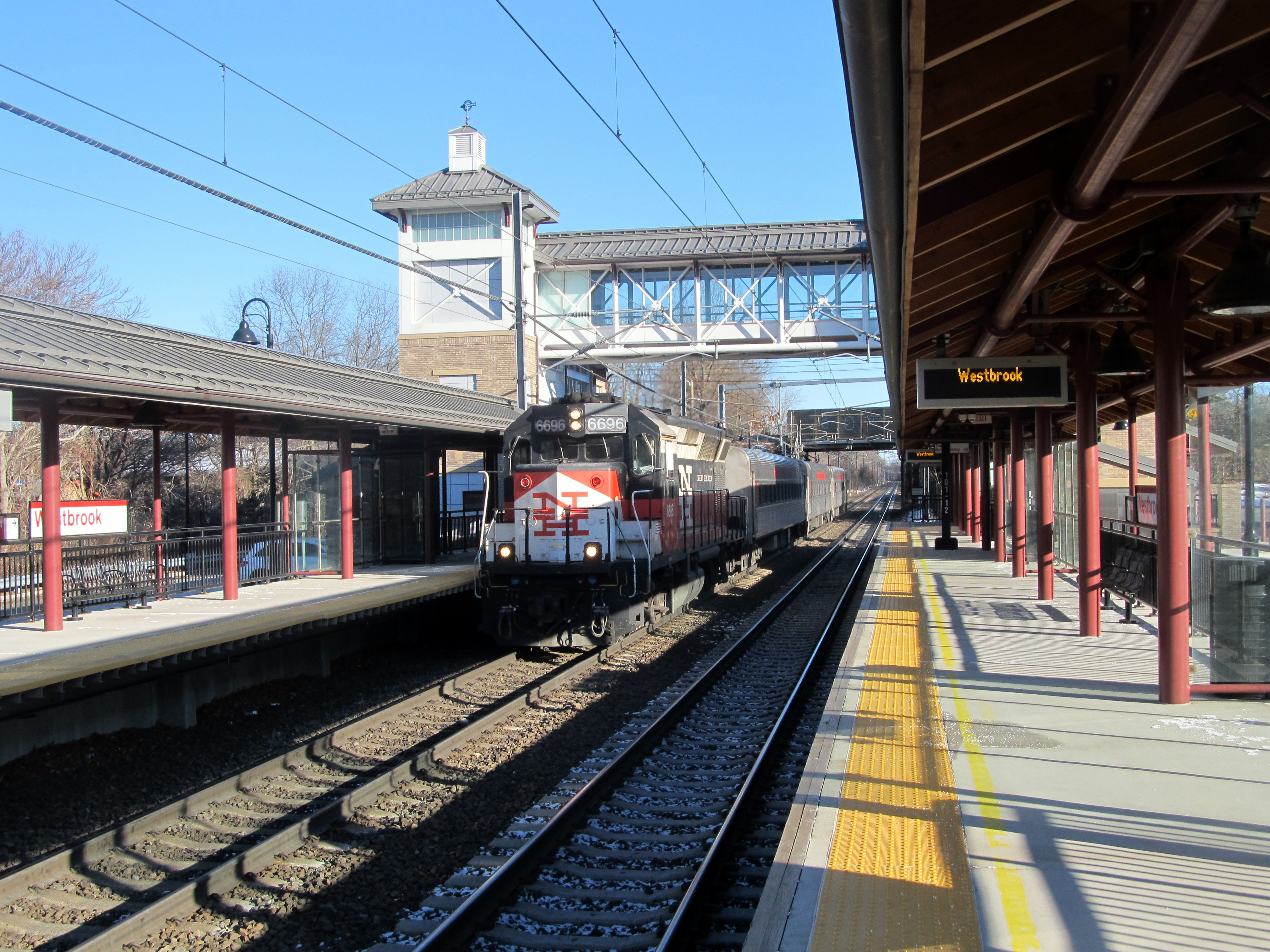 A westbound train arrives at Westbrook station in December 2017